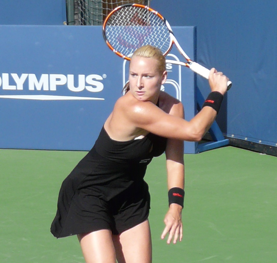 Bethanie Mattek-Sands at "Bank of the West Classic 2009", Southgate, Palo Alto, CA